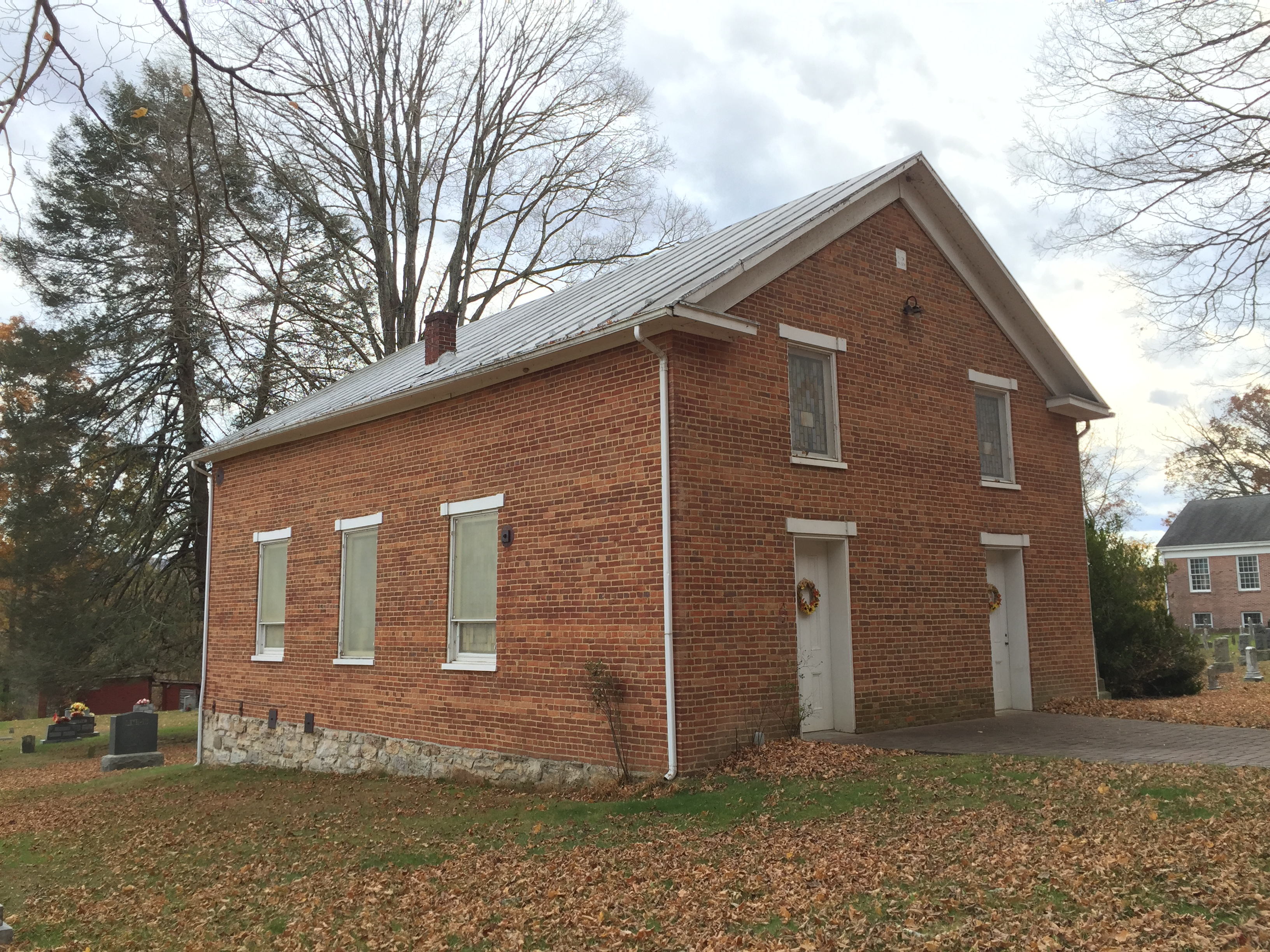 Old Hebron Lutheran Church along West Virginia Route 259 in Intermont, West Virginia, United States. Photographed by Justin A. Wilcox on October 25, 2015.